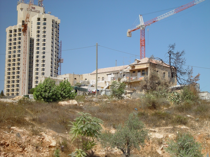 Arab house in Sheikh Badr